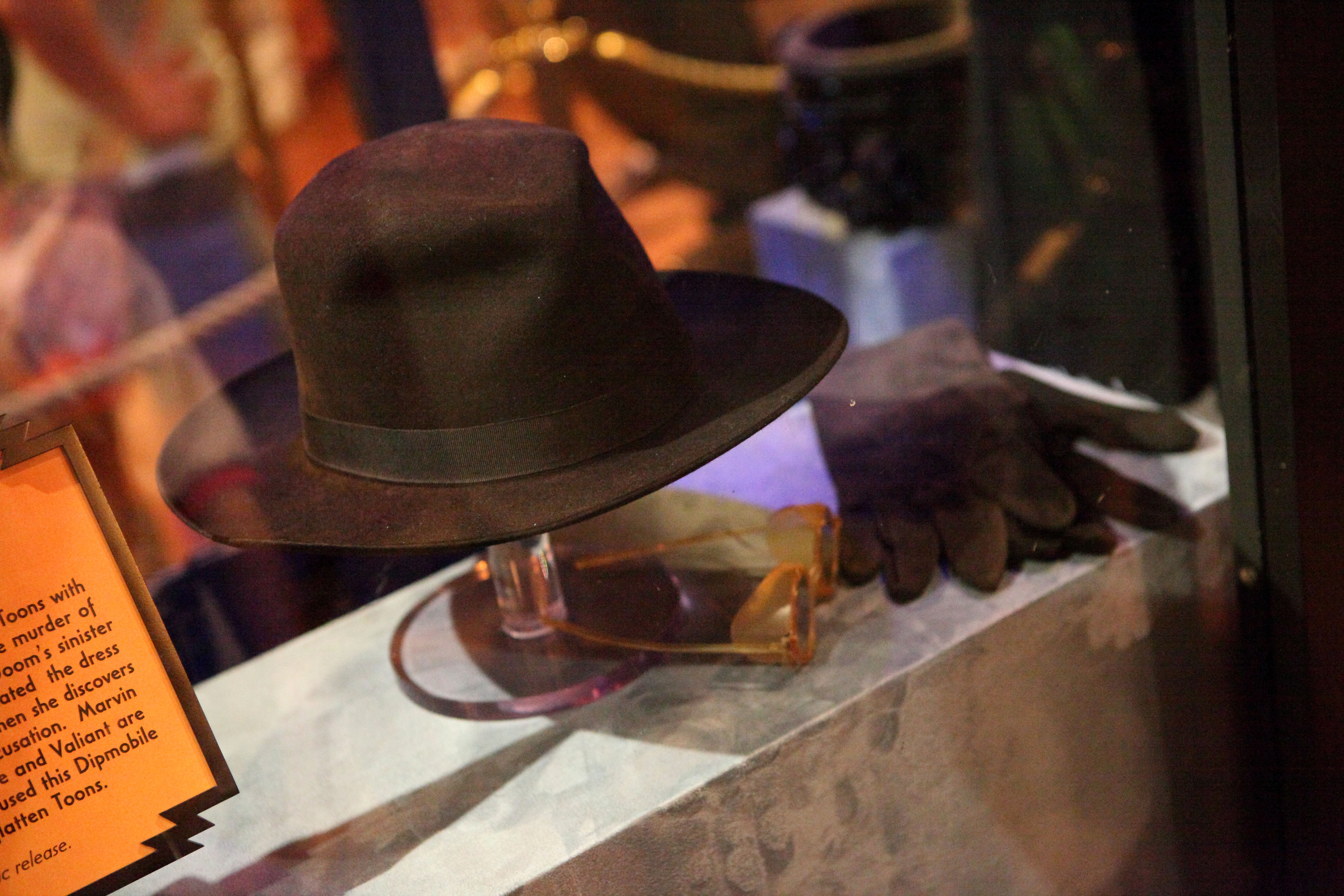 Judge Doom hat, gloves and glasses from the film Who Framed Roger Rabbit at the Great Movie Ride at Disney's Hollywood Studios.